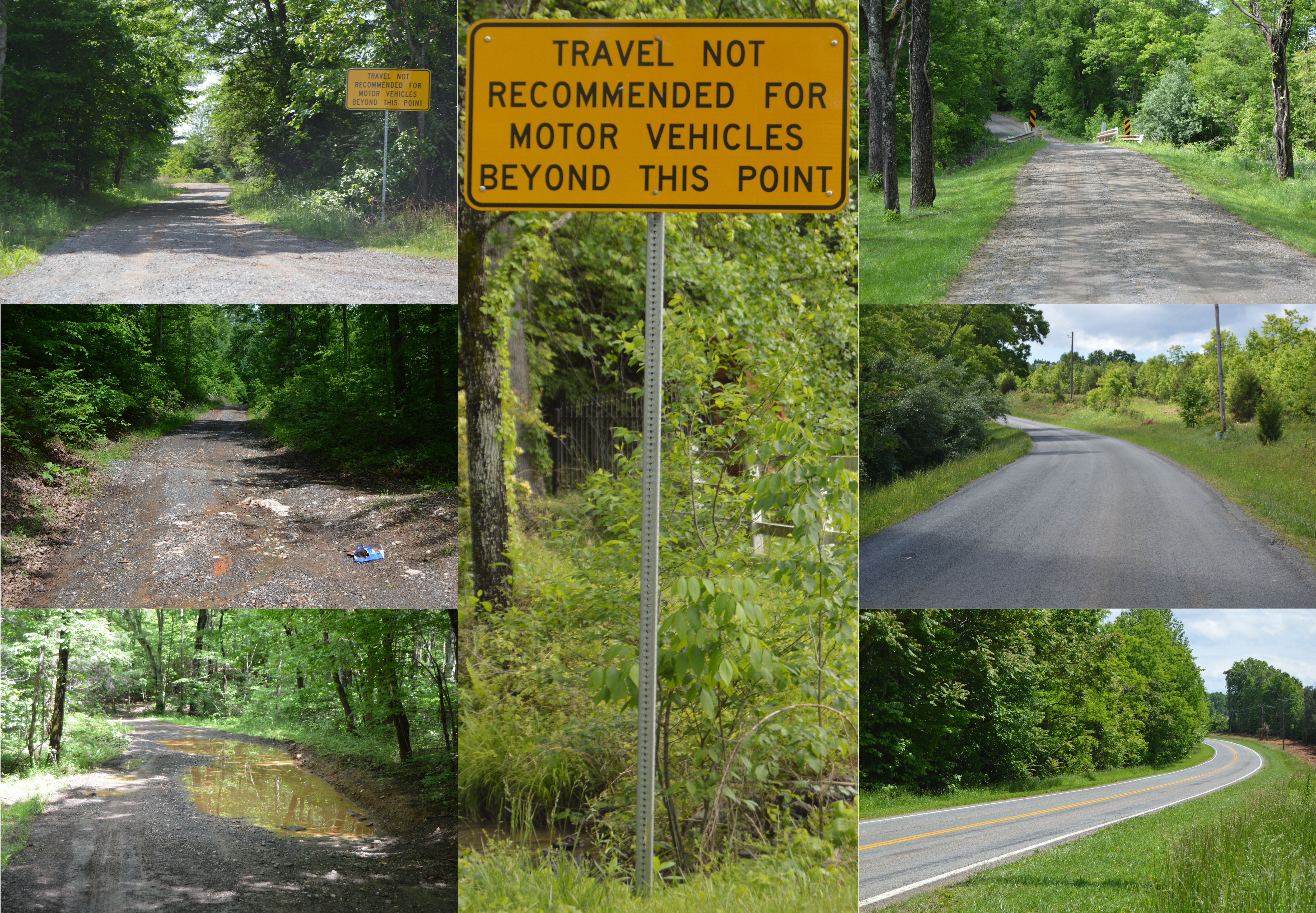 Scenes on or along Chestnut Mountain Road in Franklin County, Virginia, United States. Some sections of this road are impassable to a passenger car, while others are good, and high-quality roads (such as the one at bottom right) provide access to this road — but legally, via the Byrd Road Act, they're all secondary state highways.